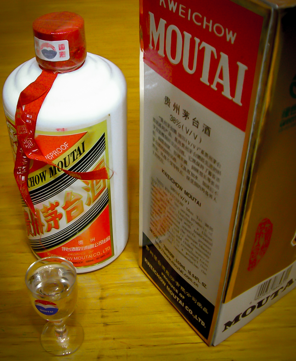 Moutai bottle